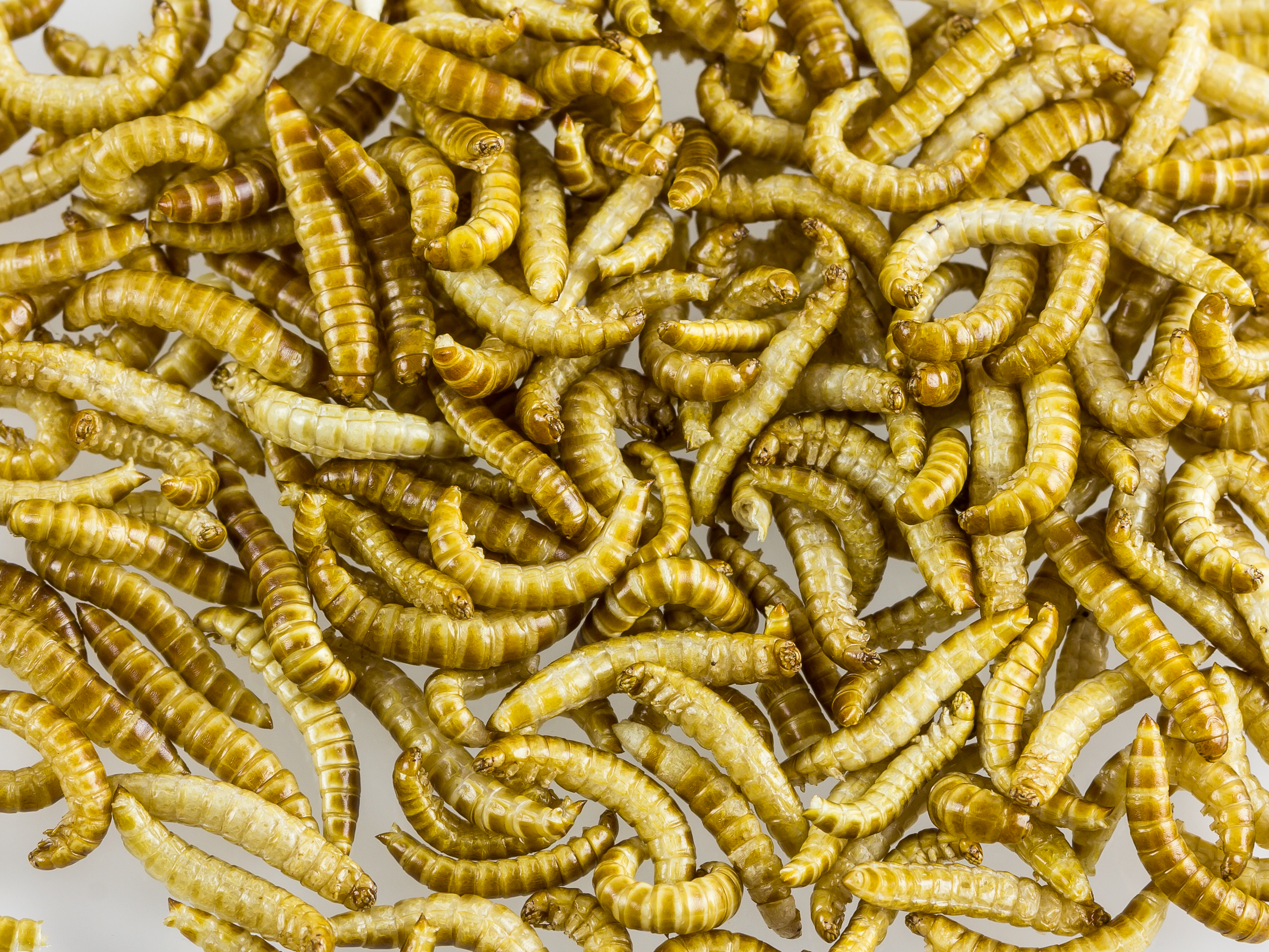 Buffaloworms (Alphitobius laevigatus) as food